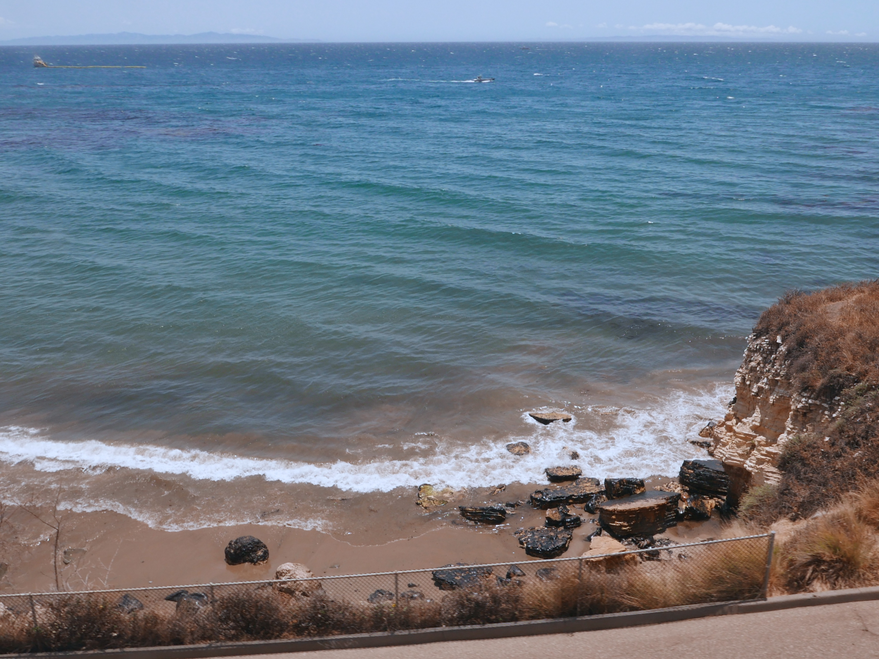 Oil rocks near Refugio State Beach during oil spill cleanup. Santa Barbara County, California, seen from the Amtrak Coast Starlight train.